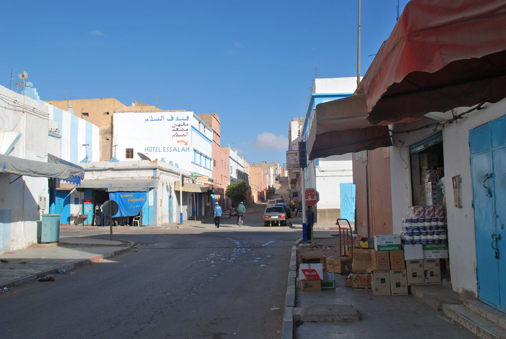 Azrou, Morocco, north